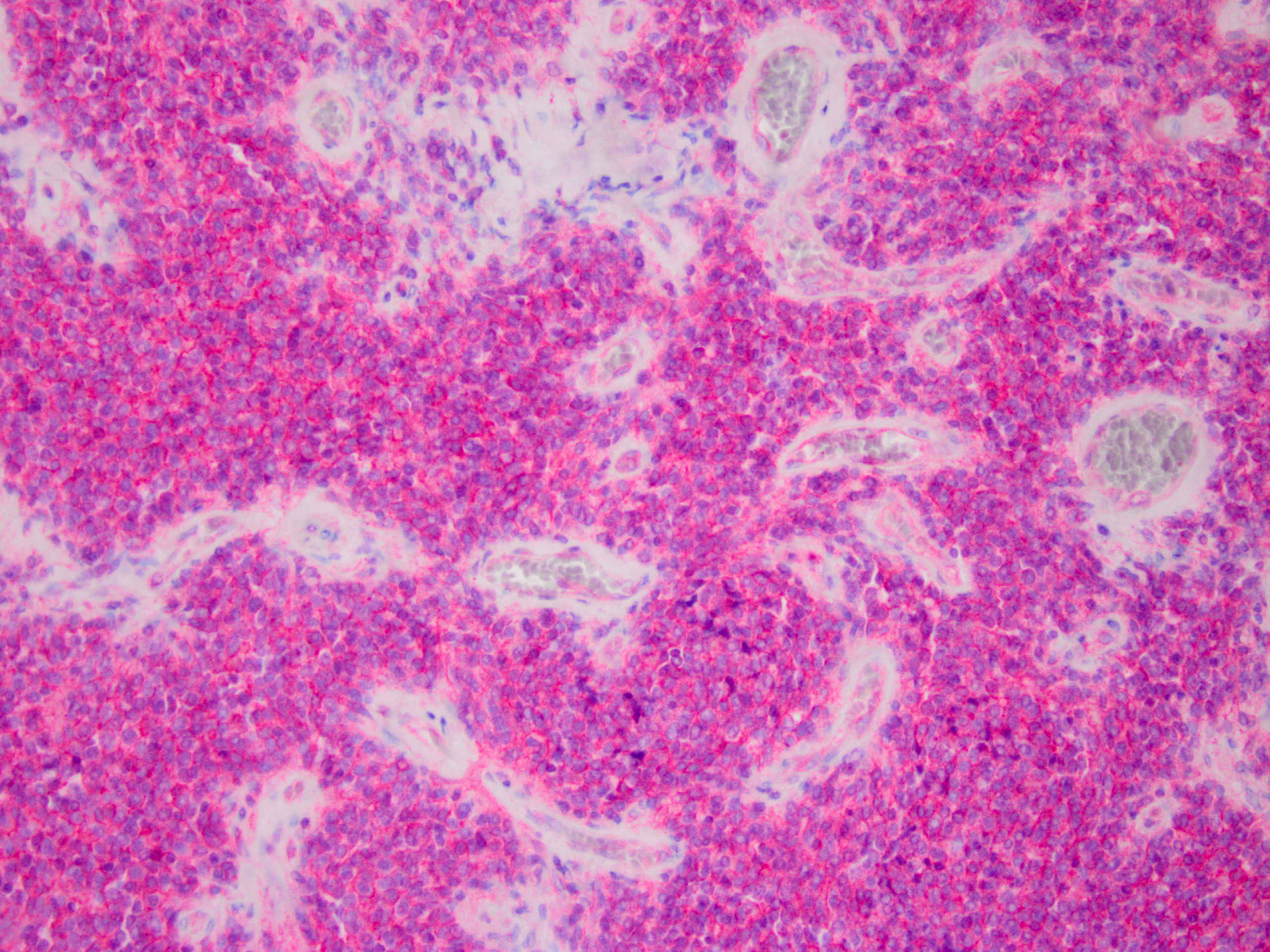 Immunohistochemical staining for CD99 in a peripheral PNET of spinal location.